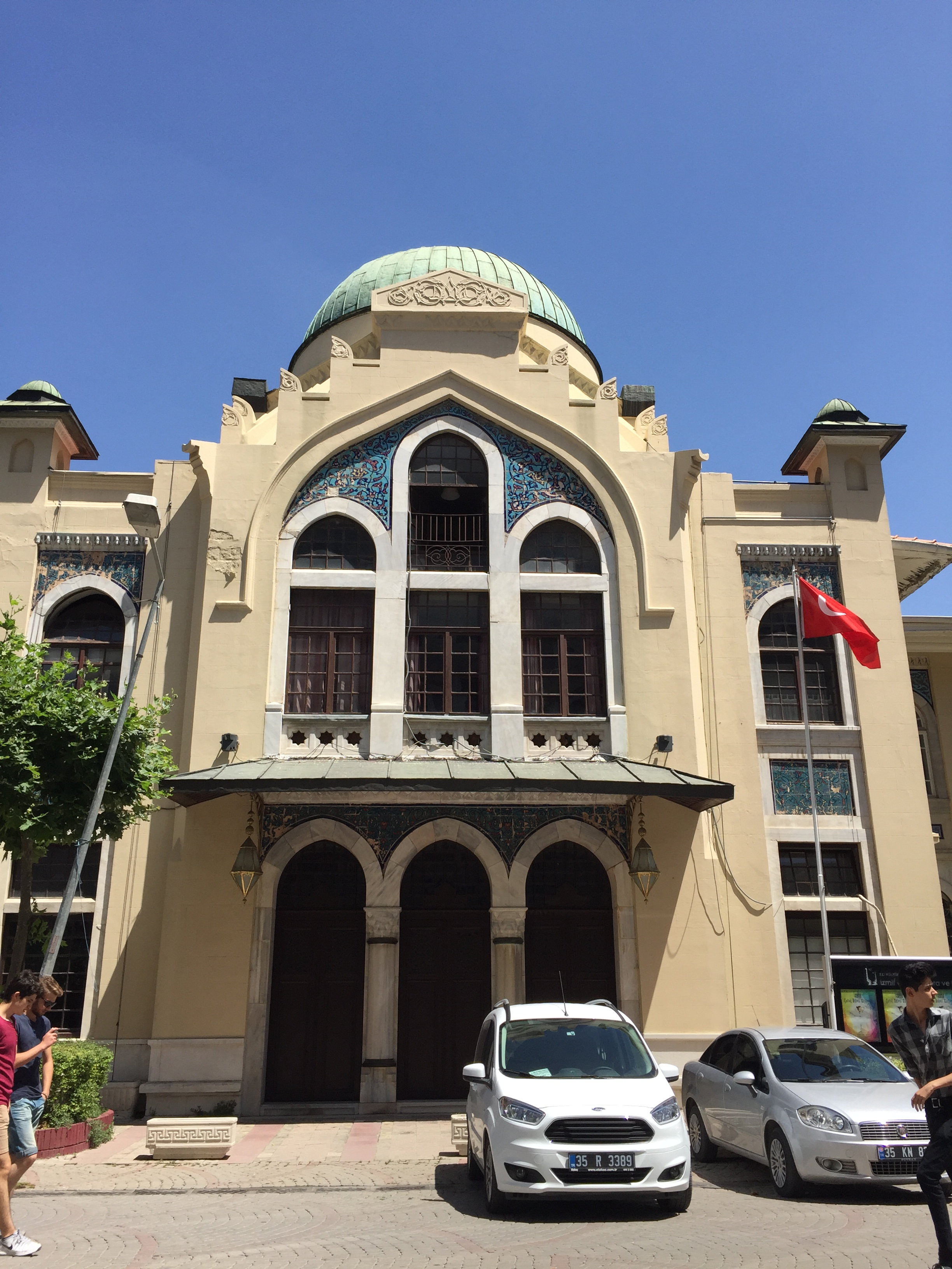 front façade of elhamra